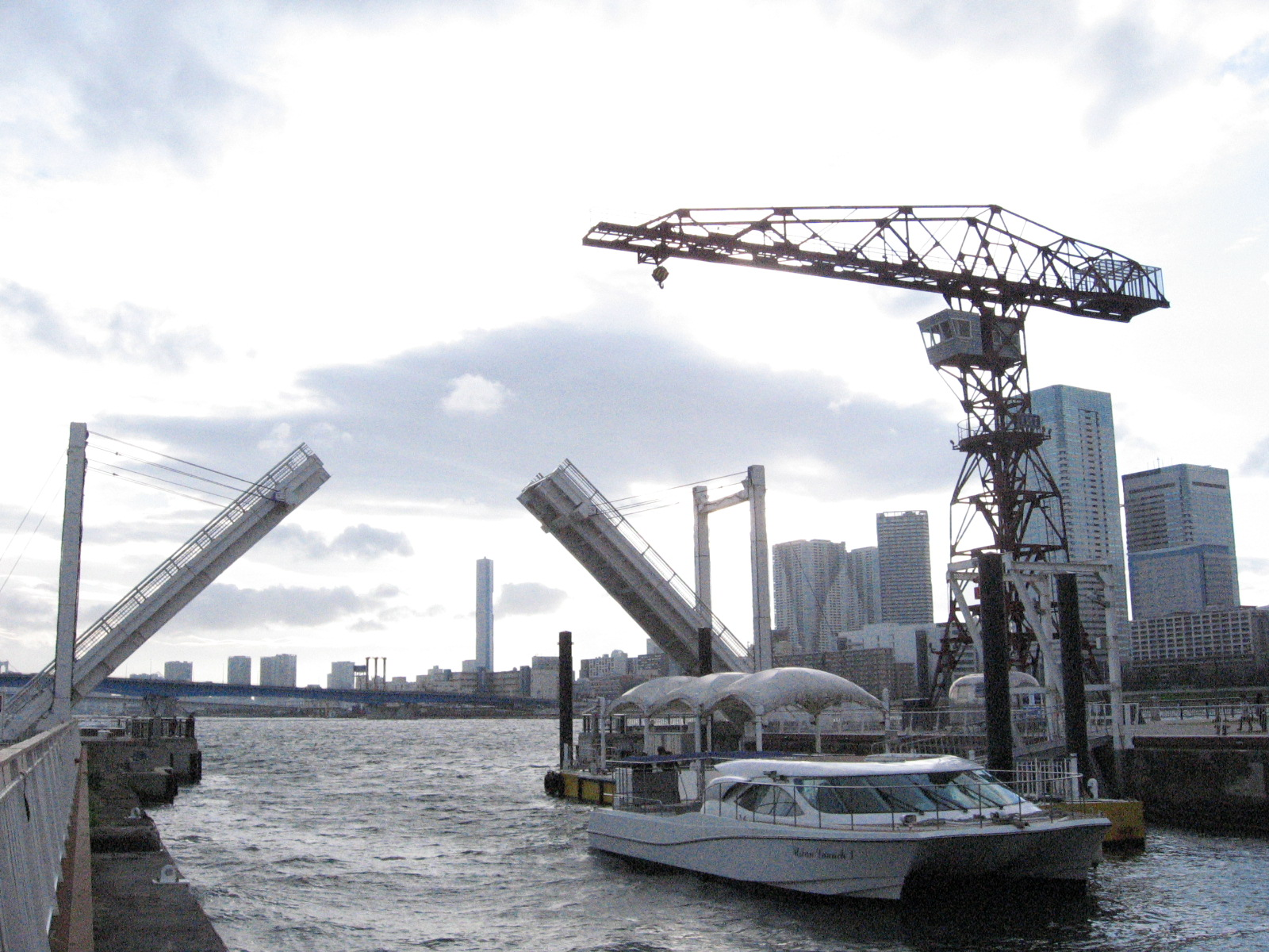 Urban Gate Bridge in Toyosu, Koto-ku.